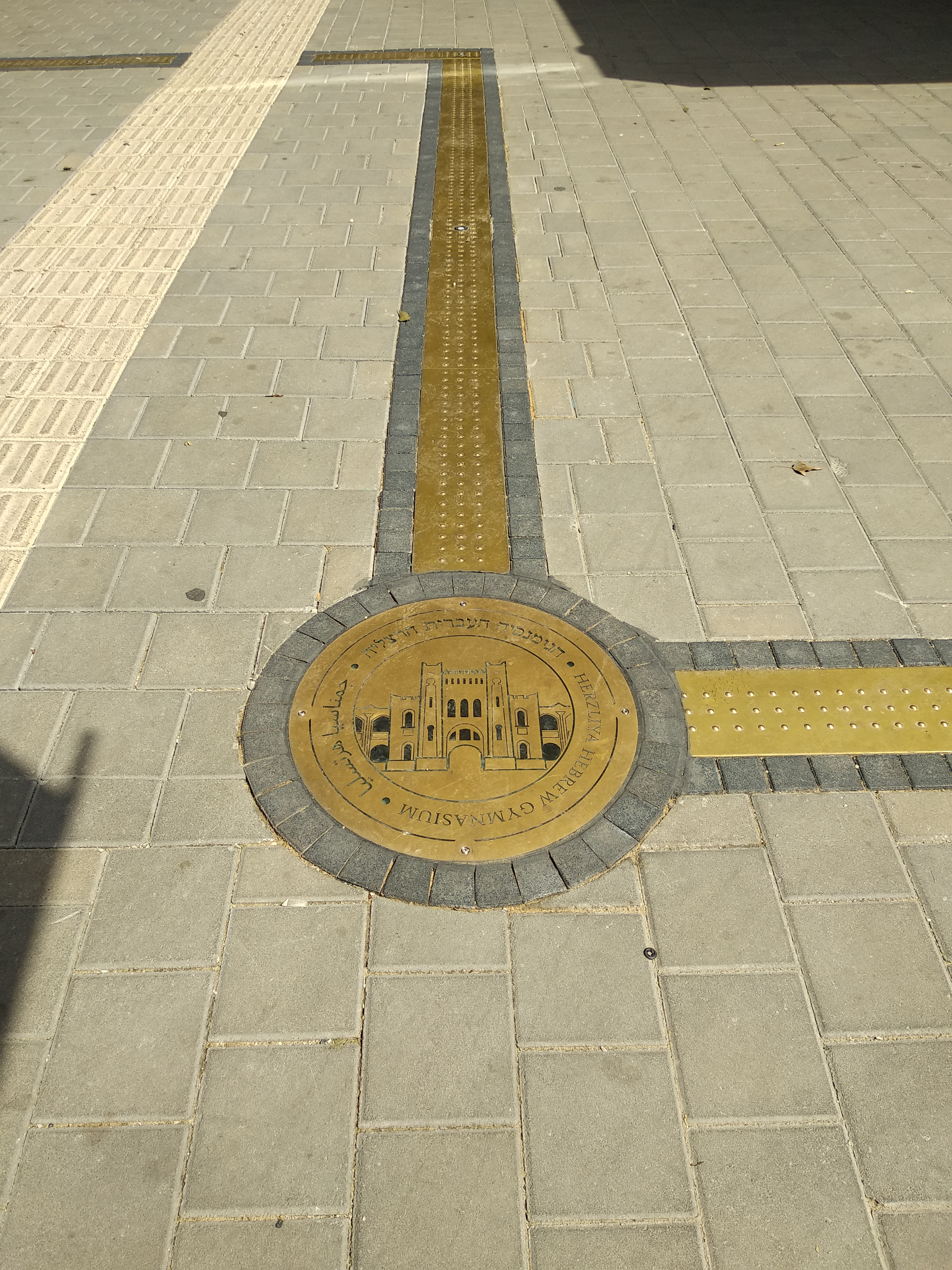 Independence Trail Tel Aviv